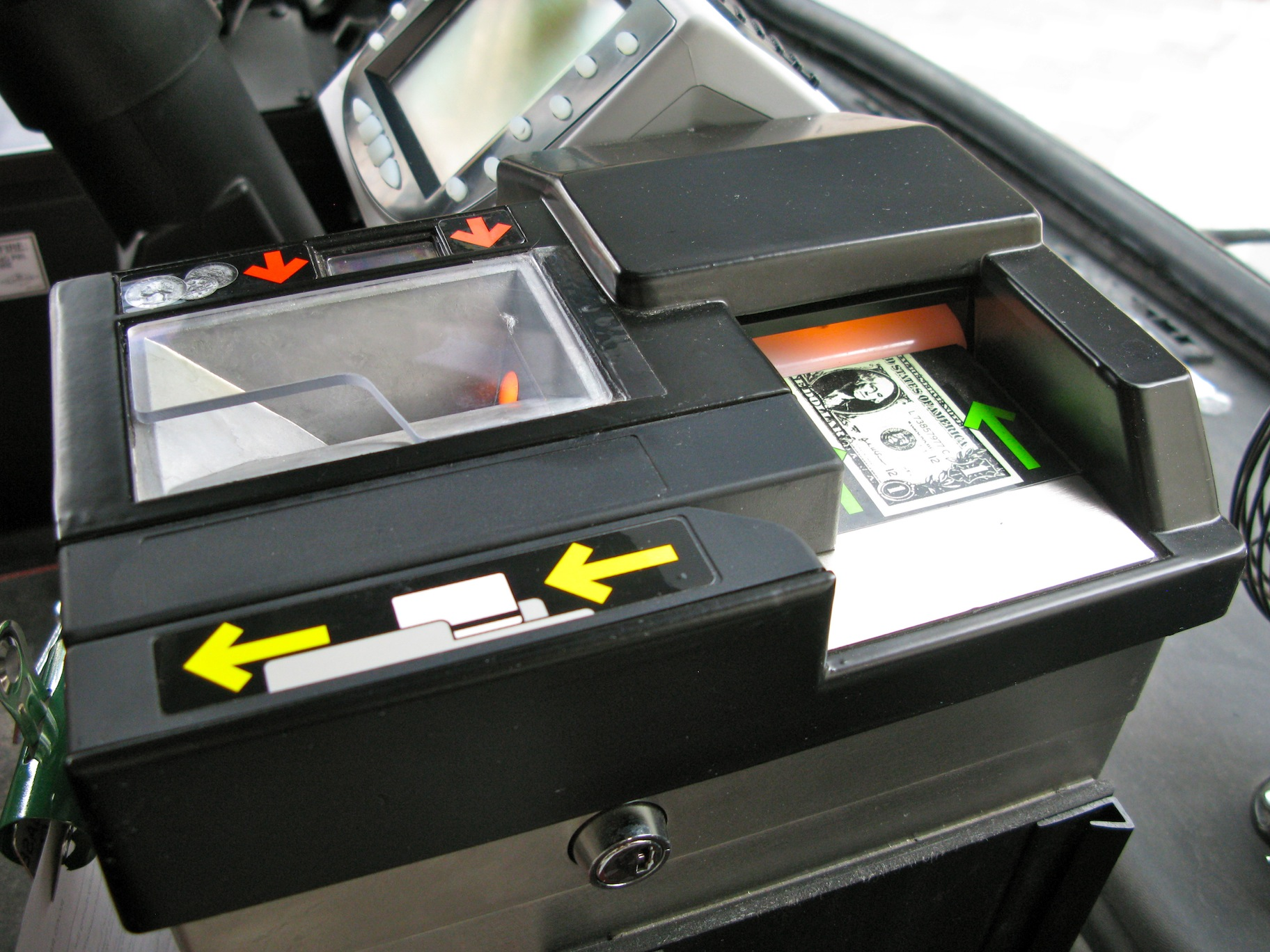 The top of a "CentsaBill" model farebox, made by GFI Genfare, in a bus of King County Metro, Seattle. This model has a reader (lower left) for magnetic-stripe cards.